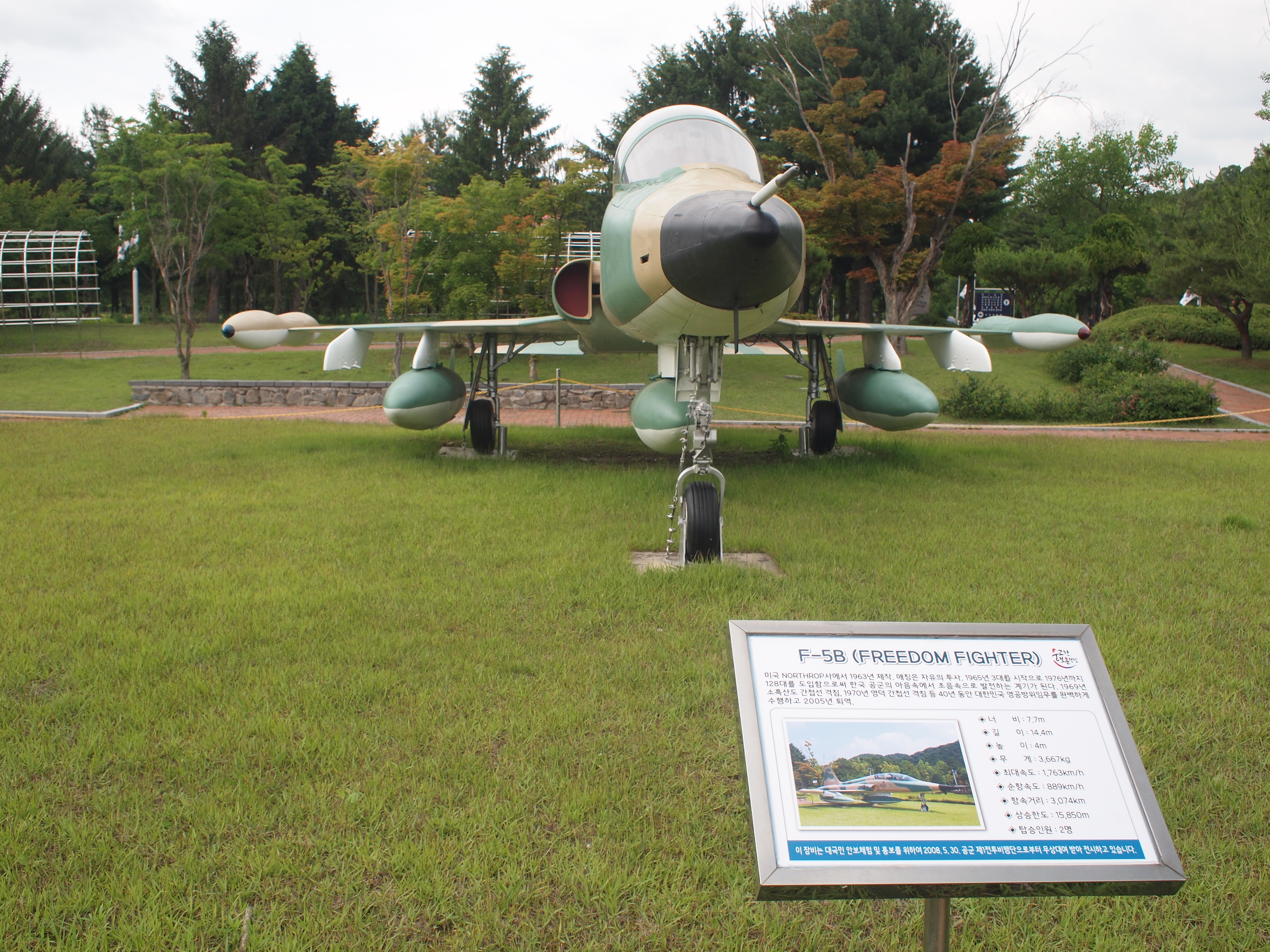 Daejeon National Cemetery